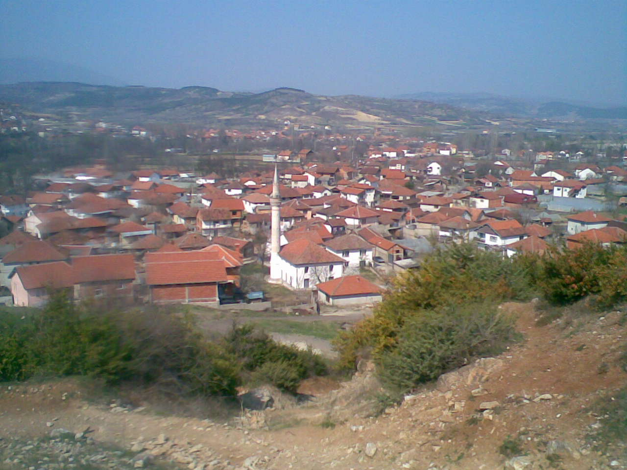 A view of Shishevo, a village in the Republic of Macedonia.